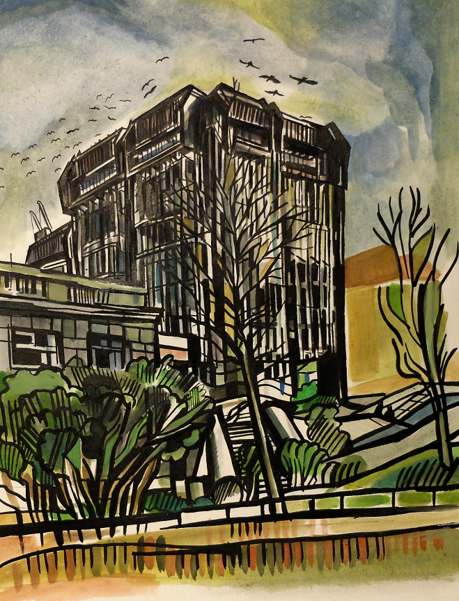 Filip Buryán: Transgas, ink and watercolor on paper, 42 x 29,7 cm, 2018. Original file name: DSCF2929 (3) – kopie.jpg